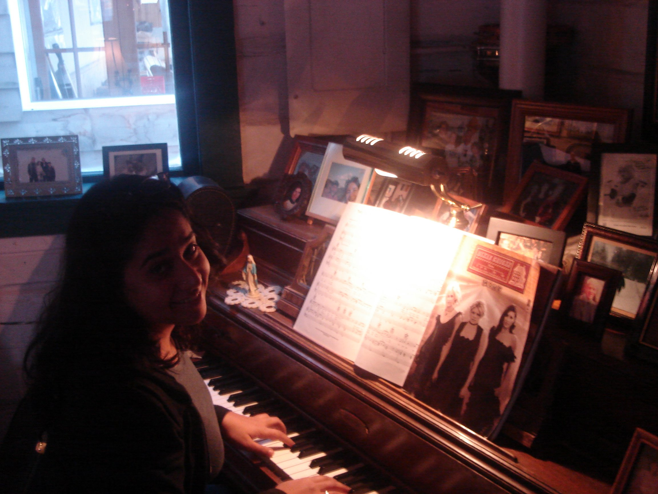 A photograph of the interior of the Talkeetna Roadhouse in Talkeetna, Alaska.